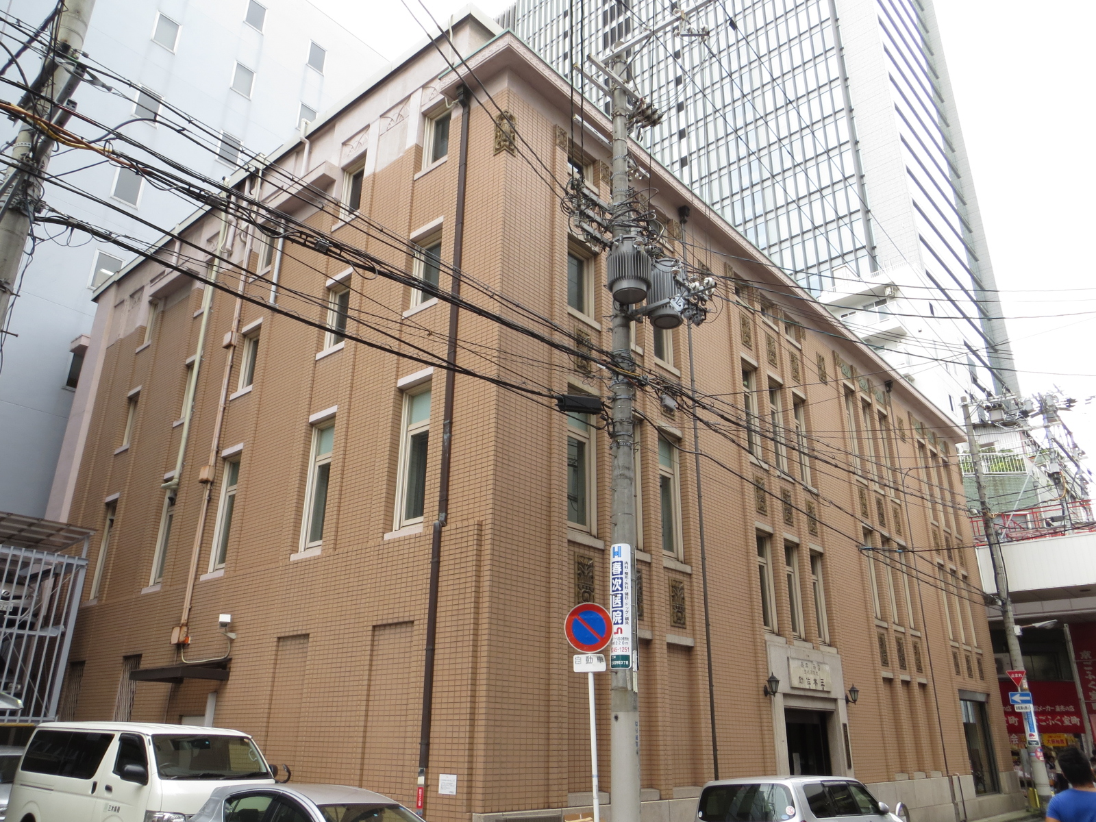 Headquarter of Miki Gakki (Musical instrument store). Senba, Osaka.